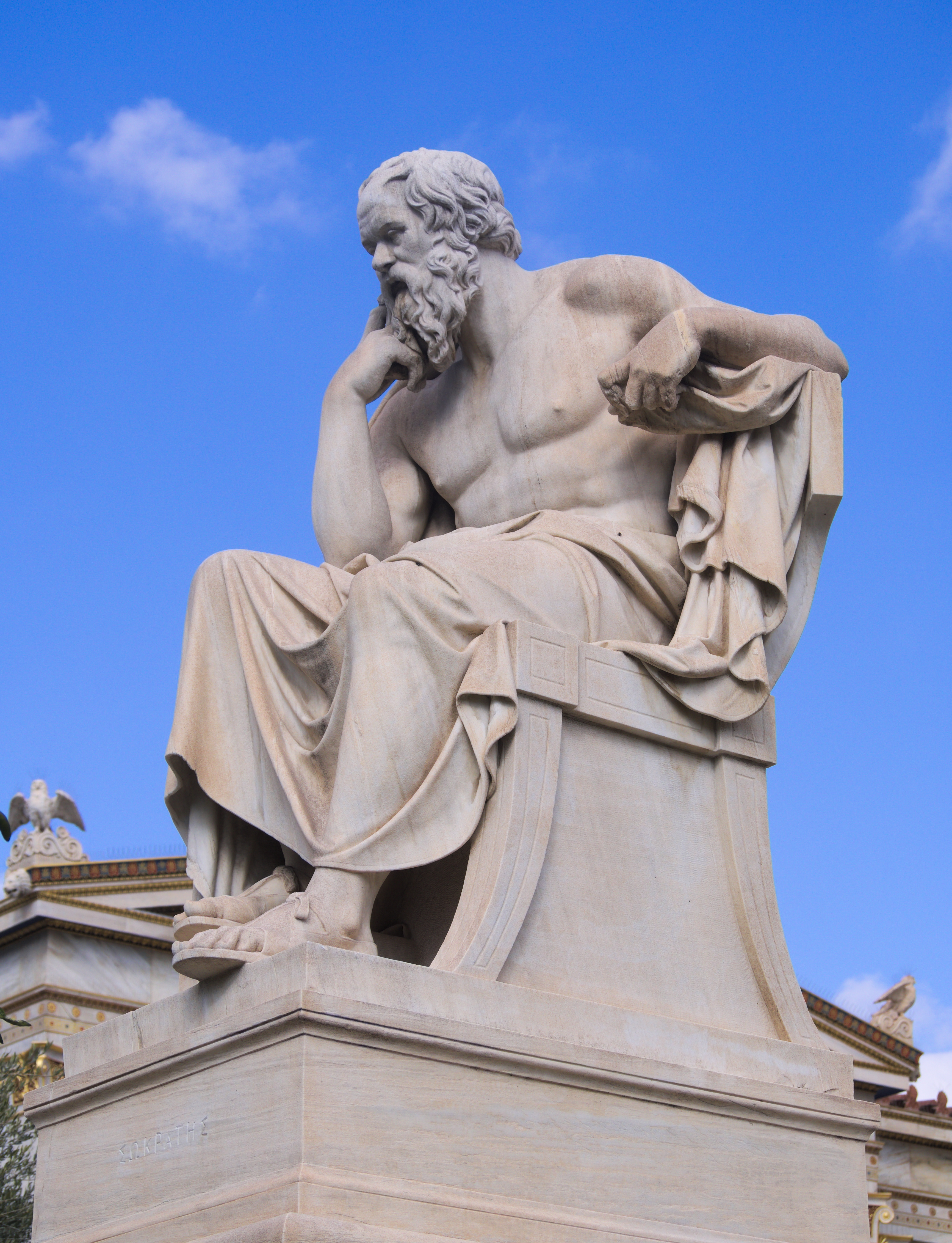 The Statue of Socrates at the Academy of Athens. Work of Leonidas Drosis (d. 1880)